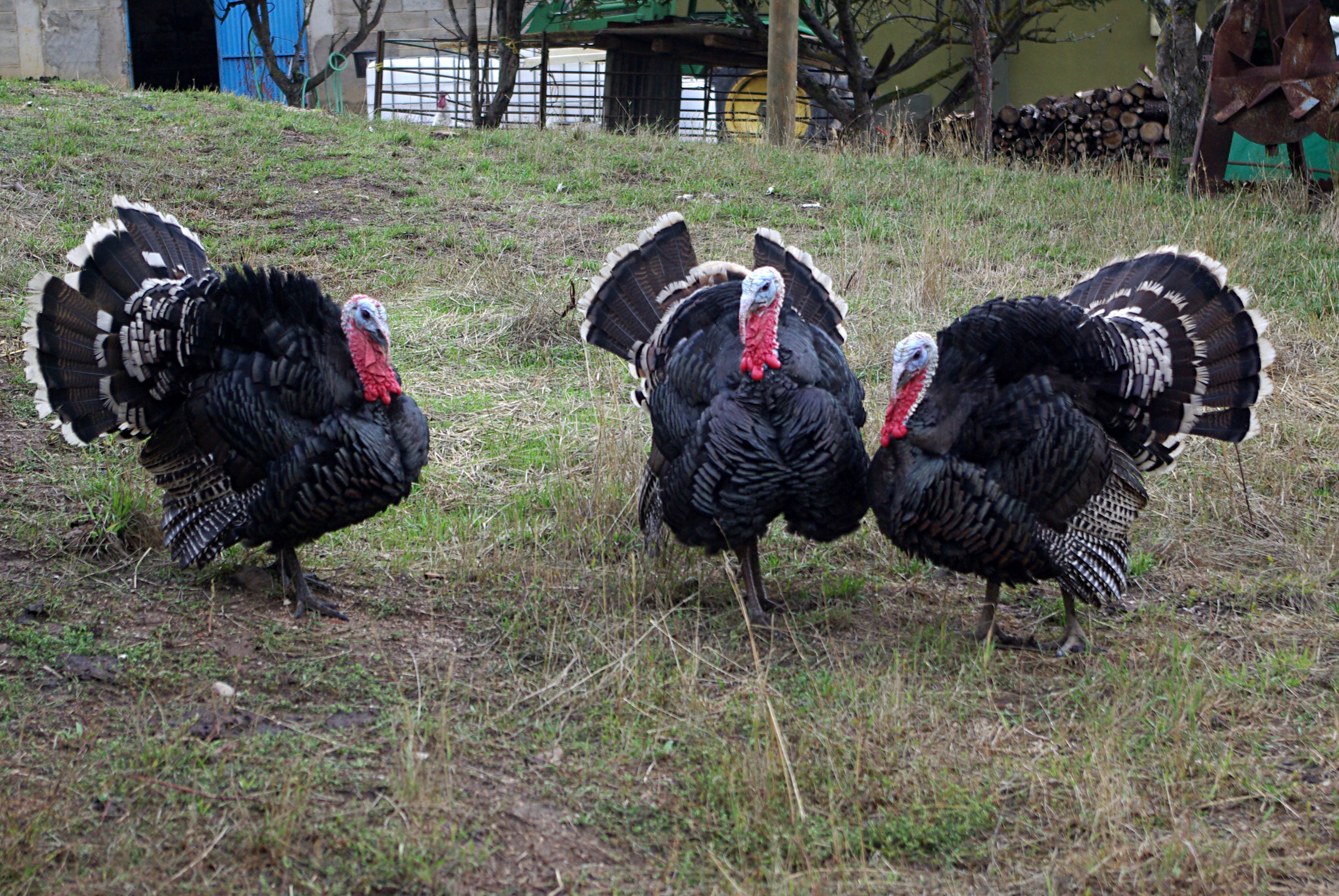 Wild Turkey (Meleagris gallopavo). León (Spain)